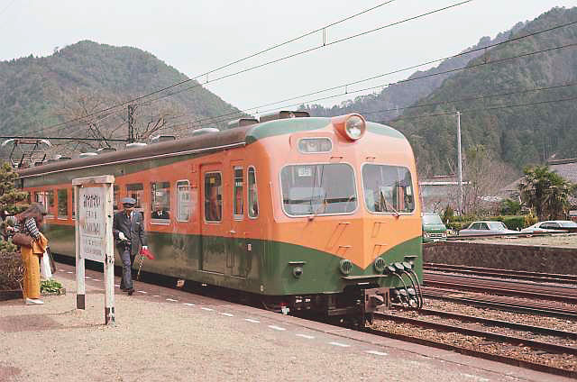 JNR 80 series EMU at Mikawa-Kawai Station on the Iida Line in Aichi Prefecture